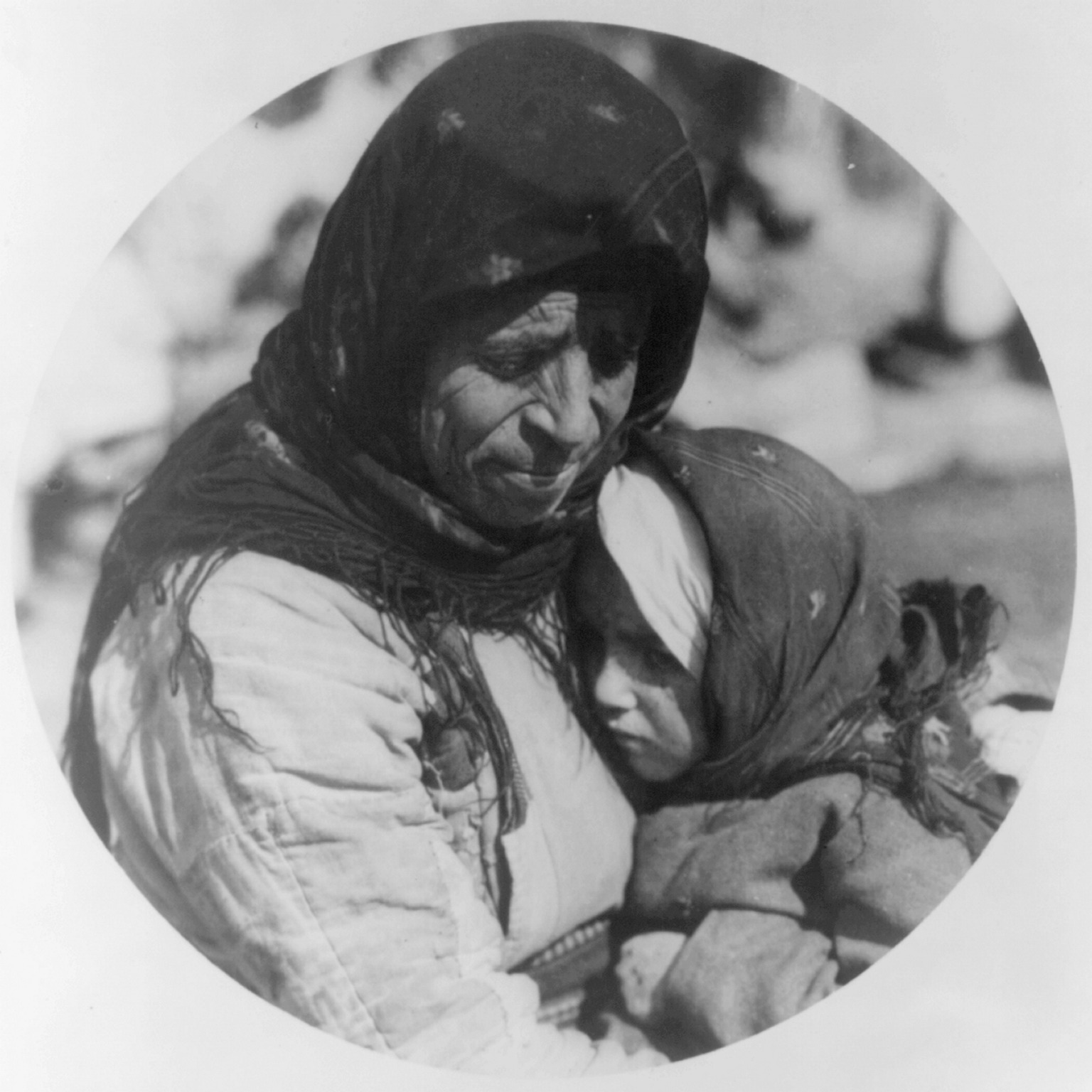 Title: Greek mother & child waiting in camp at Salonica for continuation of journey from the Caucasus to Thrace Physical description: 1 photographic print. Notes: LOT subdivision subject: Greece.; Title and other information transcribed from caption card and item.; Frank and Frances Carpenter Collection (Library of Congress).